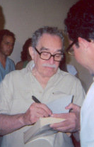 edited image of Gabriel Garcia Marquez, signing in Havana, from an image in the public domain